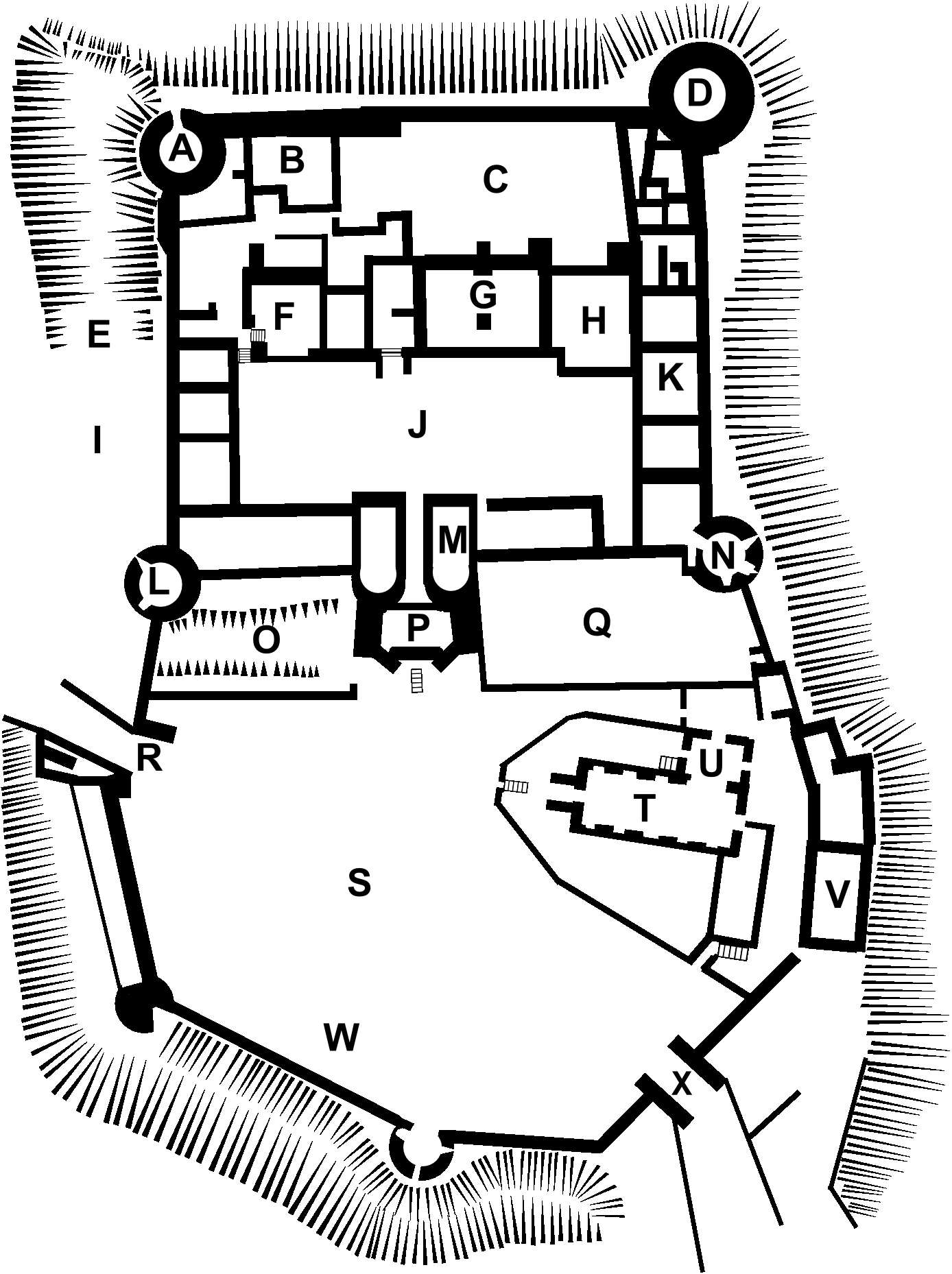 Farleigh Hungerford Castle, hand drawn after Kightly (2006) and Wilcox (1981)